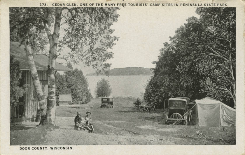 Cedar Glen, one of themany free tourists ' camp sites in Peninsula State Park, Door County, Wisconsin